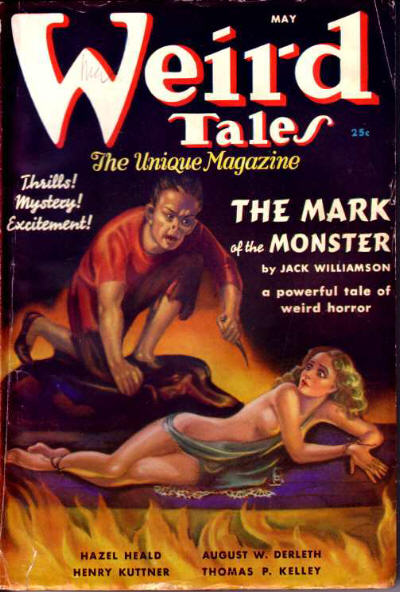 Cover of the pulp magazine Weird Tales (May 1937, vol. 29, no. 5) featuring The Mark of the Monster by Jack Williamson. Cover art by Margaret Brundage.